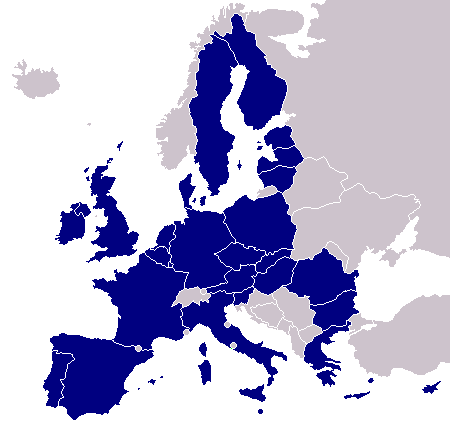 EU accession map by 2007